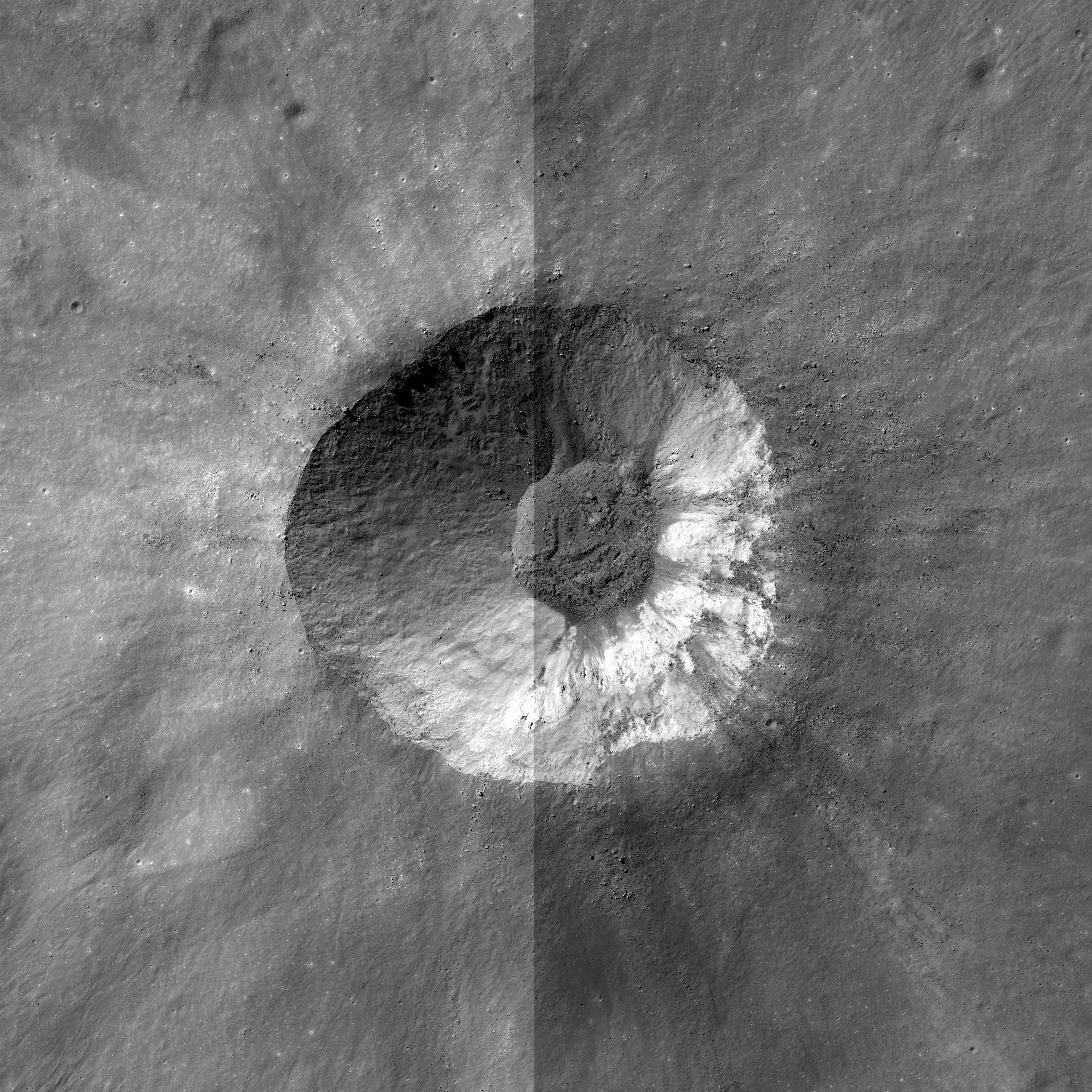 LROC mosaic showing Vaughan crater. Width shown is approximately 6.7 km.